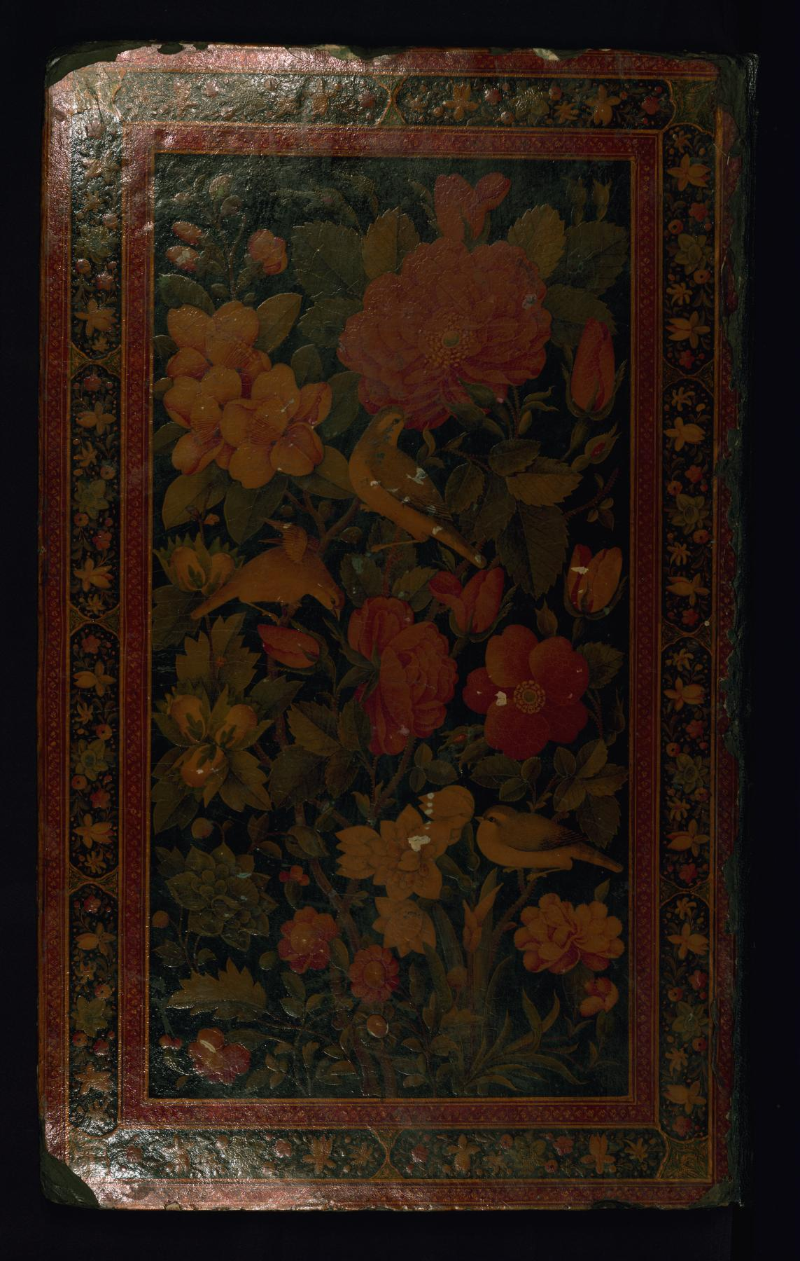 Walters manuscript W.599 is an illuminated and illustrated copy of Anvar-i Suhayli (The lights of Canopus), dating to the 13th century AH/AD 19th. It is a Persian version of Kalilah wa-Dimnah (The fables of Bidpay). It was completed on 26 Jumadá I 1264 AH/AD 1847 by Mirza Rahim. The text is written in Nasta'liq script in black and red ink, revealing the influence of Shikastah script. There are 123 paintings illustrating the text. The Qajar binding is original to the manuscript.